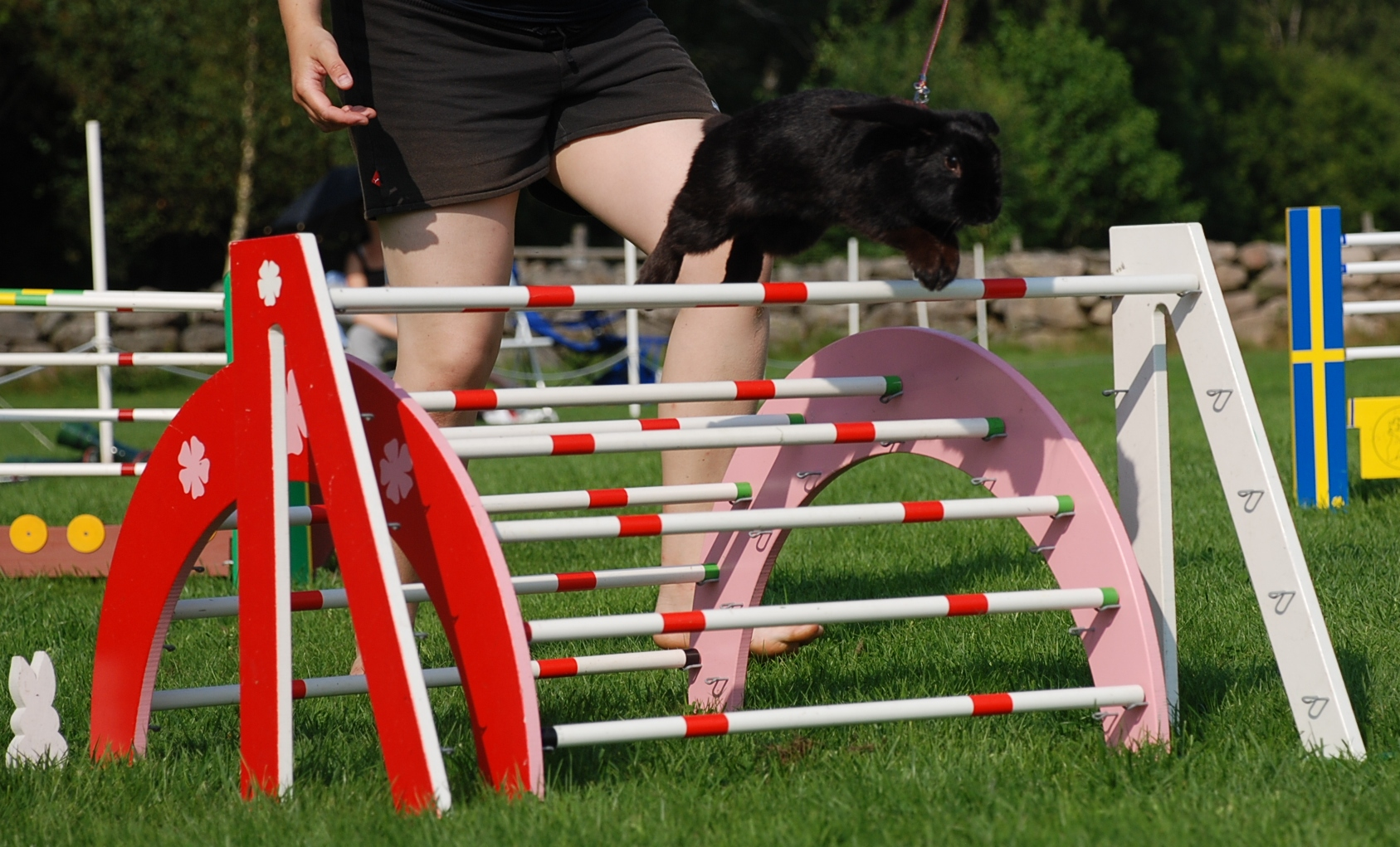 A jumping rabbit.